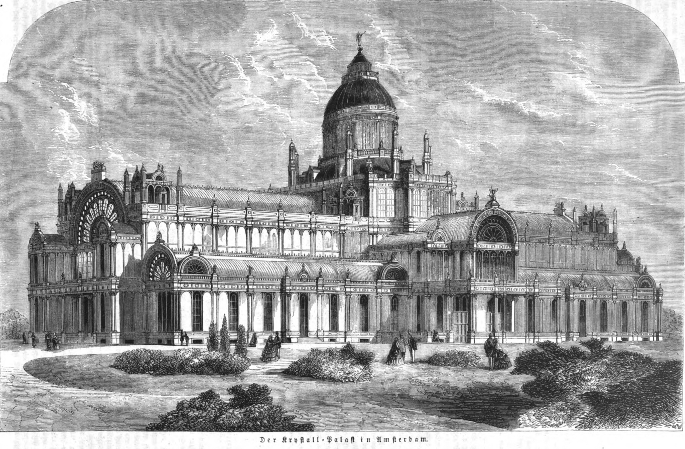 caption: "Der Krystall-Palast in Amsterdam."